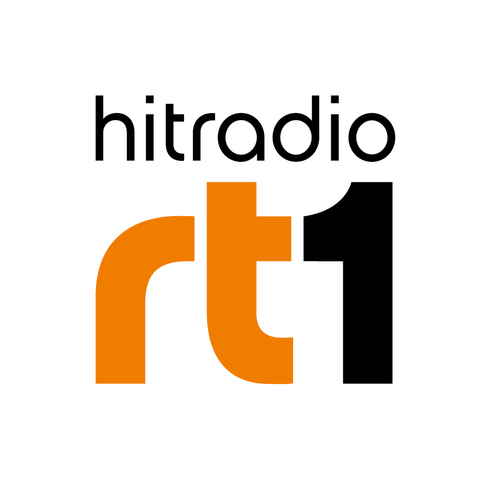 Logo HITRADIO RT1 2020 ohne Hintergrund